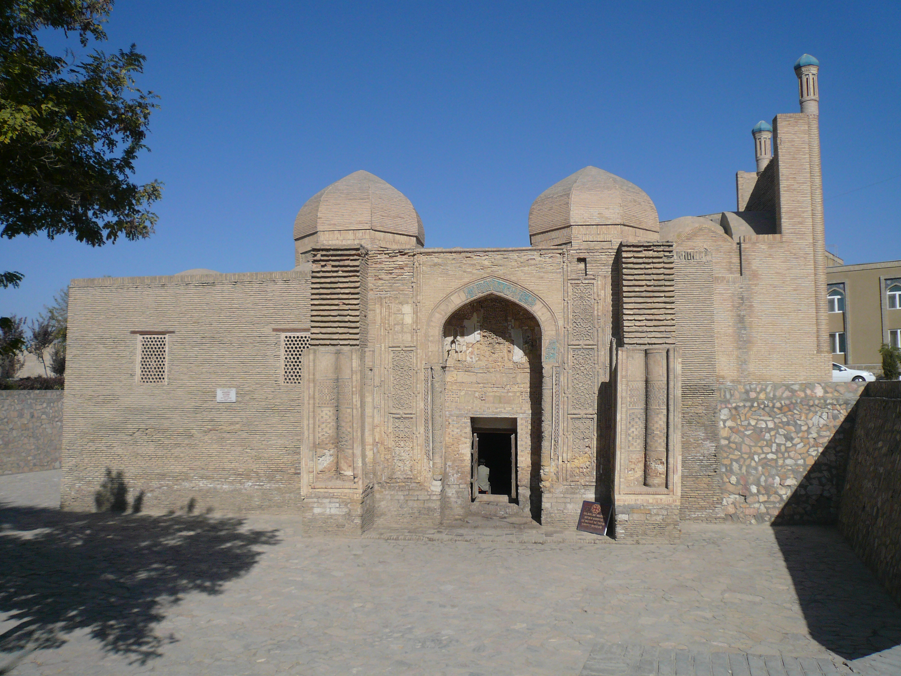 mosque Magoki-Attari, Bukhara, Uzbekistan